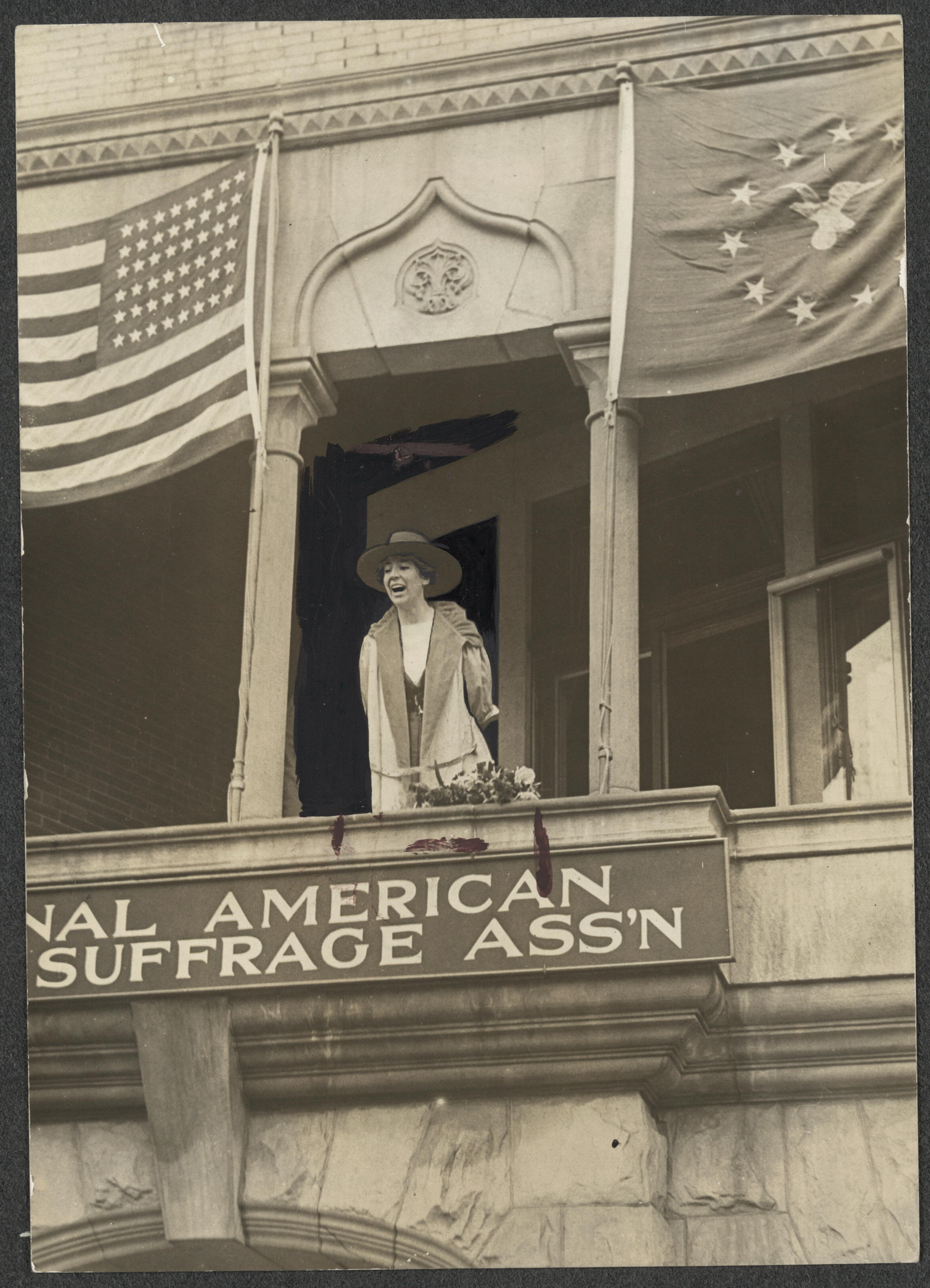 Title: Miss Jeannette Rankin, of Montana, speaking from the balcony of the National American Woman Suffrage Association, Monday, April 2, 1917. By C. T. Chapman, Kensington, Md. (Photographer) Contributor Names: C. T. Chapman, Kensington, Md. (Photographer) Created / Published 1917 Apr. 2 Subject Headings - Suffragists--United States--1910-1920 - Women's rights--United States - National American Woman Suffrage Association - Rankin, Jeannette, 1880-1973 - National Woman's Party--Speakers - Women--Suffrage--Montana - Politicians - Photographs - United States -- Montana Genre Photographs Notes: - Title transcribed from item. - Summary: Photograph of Jeannette Rankin, at NAWSA headquarters, speaking from balcony, flags festooned above her. - Photograph has been retouched and marked with crop marks for publication purposes. - Cropped version of the photograph published in The Suffragist, 5, no. 63 (Apr. 7, 1917): 7. Captioned: "Jeannette Rankin Makes Her First Speech in Washington." Illustration for story "The Capitol Welcomes Jeannette Rankin." Medium 1 photograph: print; 5 x 7 in. Call Number/Physical Location Location: National Woman's Party Records, Group I, Container I:156, Folder: Rankin, Jeannette Source Collection Records of the National Woman's Party Repository Manuscript Division Digital Id //hdl.loc.gov/loc.mss/mnwp.156007